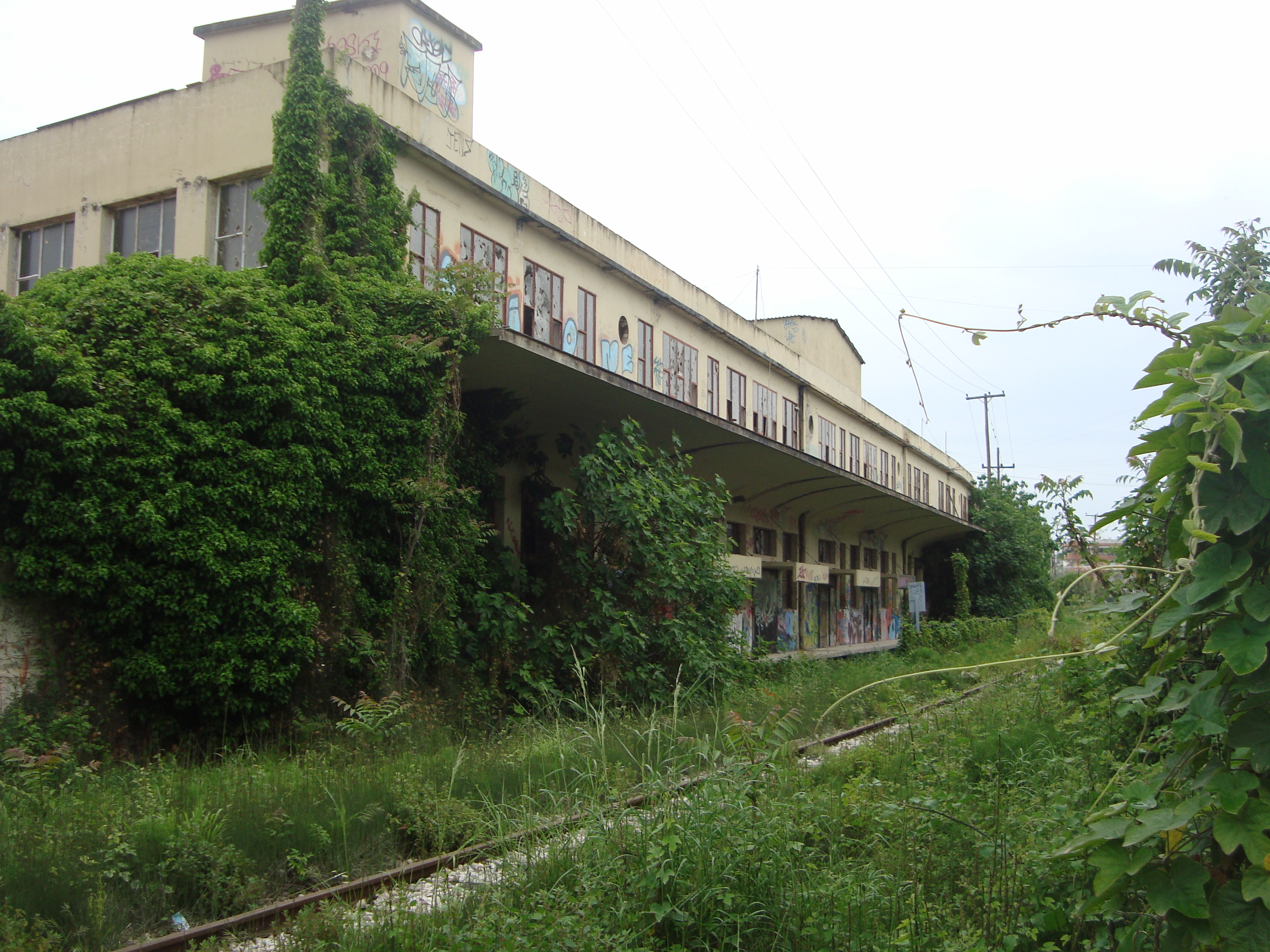 Paper Mills E.G. Ladopoulos S.A.. train station